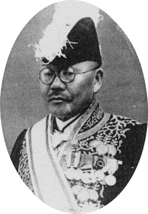 Mr. Ryūzō Tanaka.